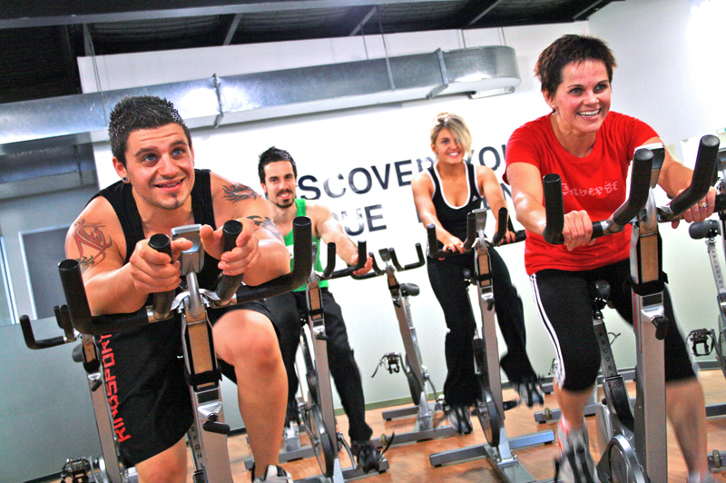 Indoor Cycling Class at a Gym